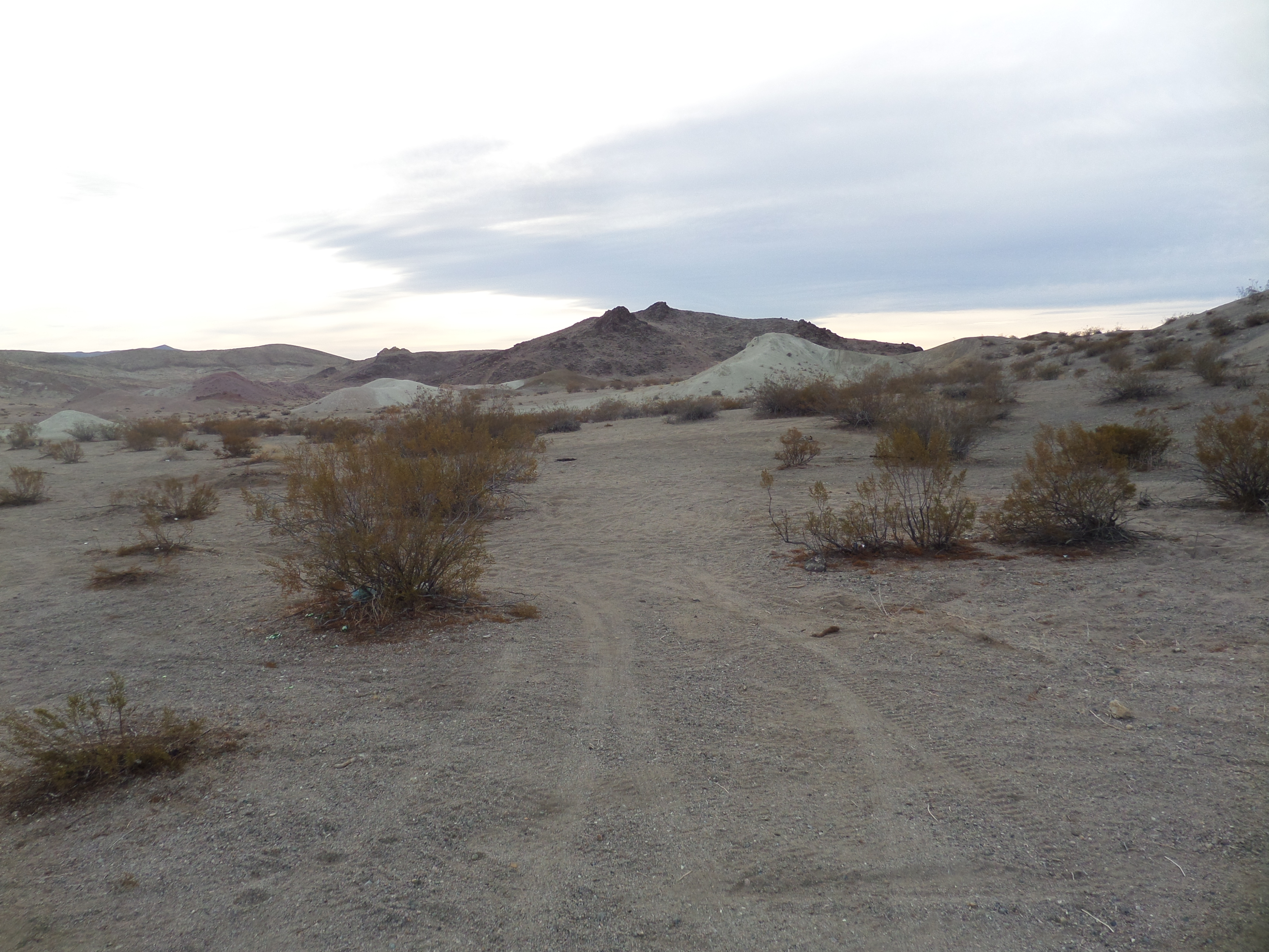 Mojave Desert scene in Searles Valley area.